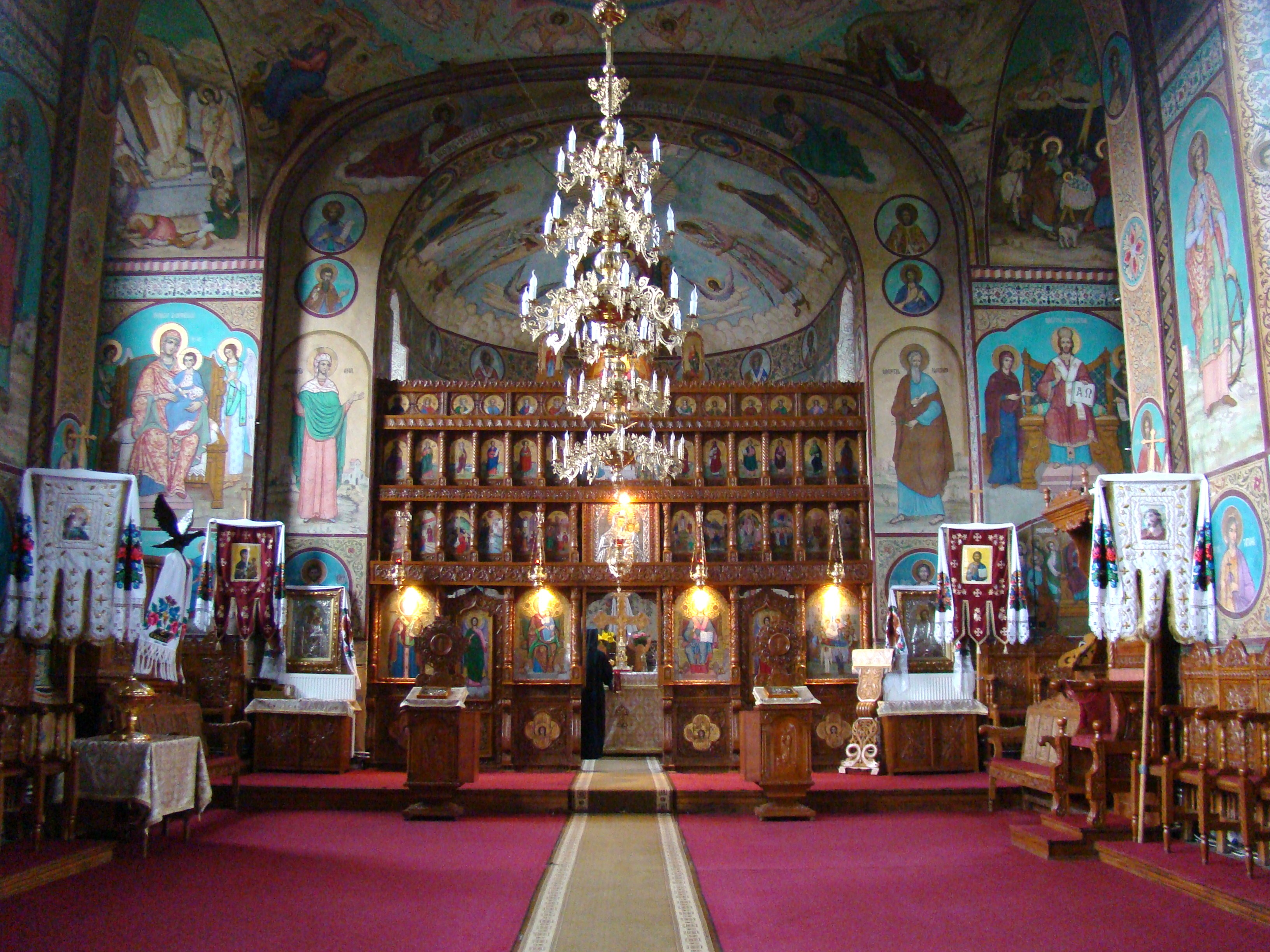 Moisei Monastery, Maramureș county, Romania